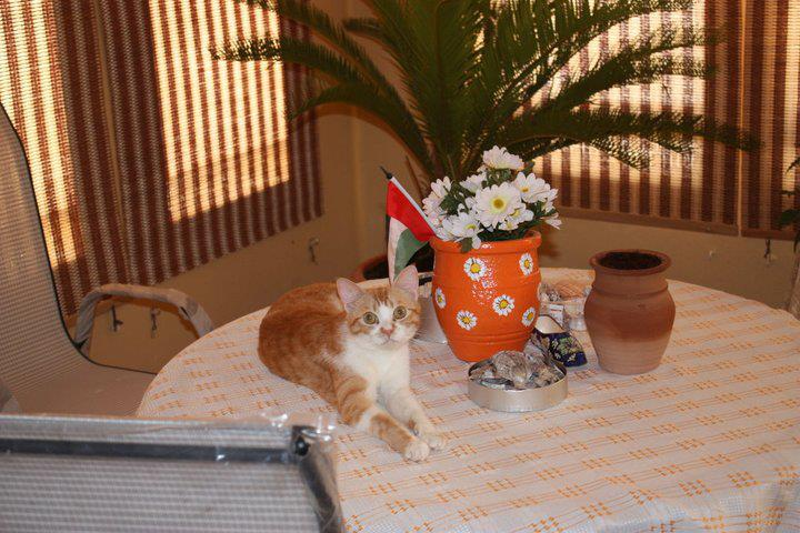 The Arabian Mau is a natural shorthaired cat of the desert of the Arabian peninsula, which lives there in the streets and has adapted very well to the extreme climate.